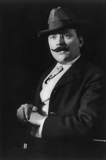 American comic strip scriptwriter and painter Richard Felton Outcault (1863-1928)